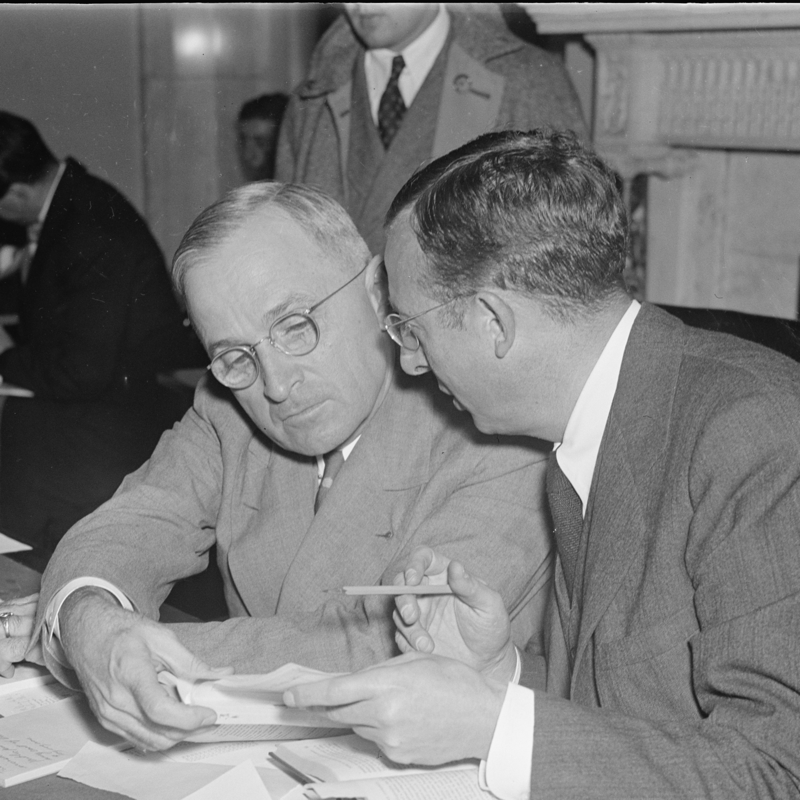 Heads in huddle as senate committee resumes railroad financing hearing. Washington, D.C., Oct. 20. Senator Harry S. Truman of Missouri, (left) acting Chairman, and Max Lowenthal, Counsel and Chief Investigator, go into a huddle as the Senate Committee investigating railroad financing resumed its open hearings today. Senator Truman is presiding during the absence of senator Burton K. Wheeler who has not yet returned to the Capital.